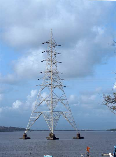 Electricity pylon in north Bombay.